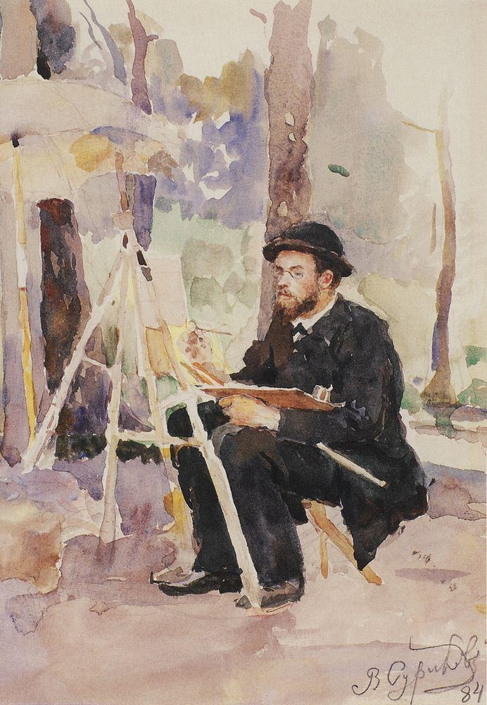 An artist at the easel (Portrait of Ilya Ostroukhov, watercolour painting by Vasily Surikov, 1884)